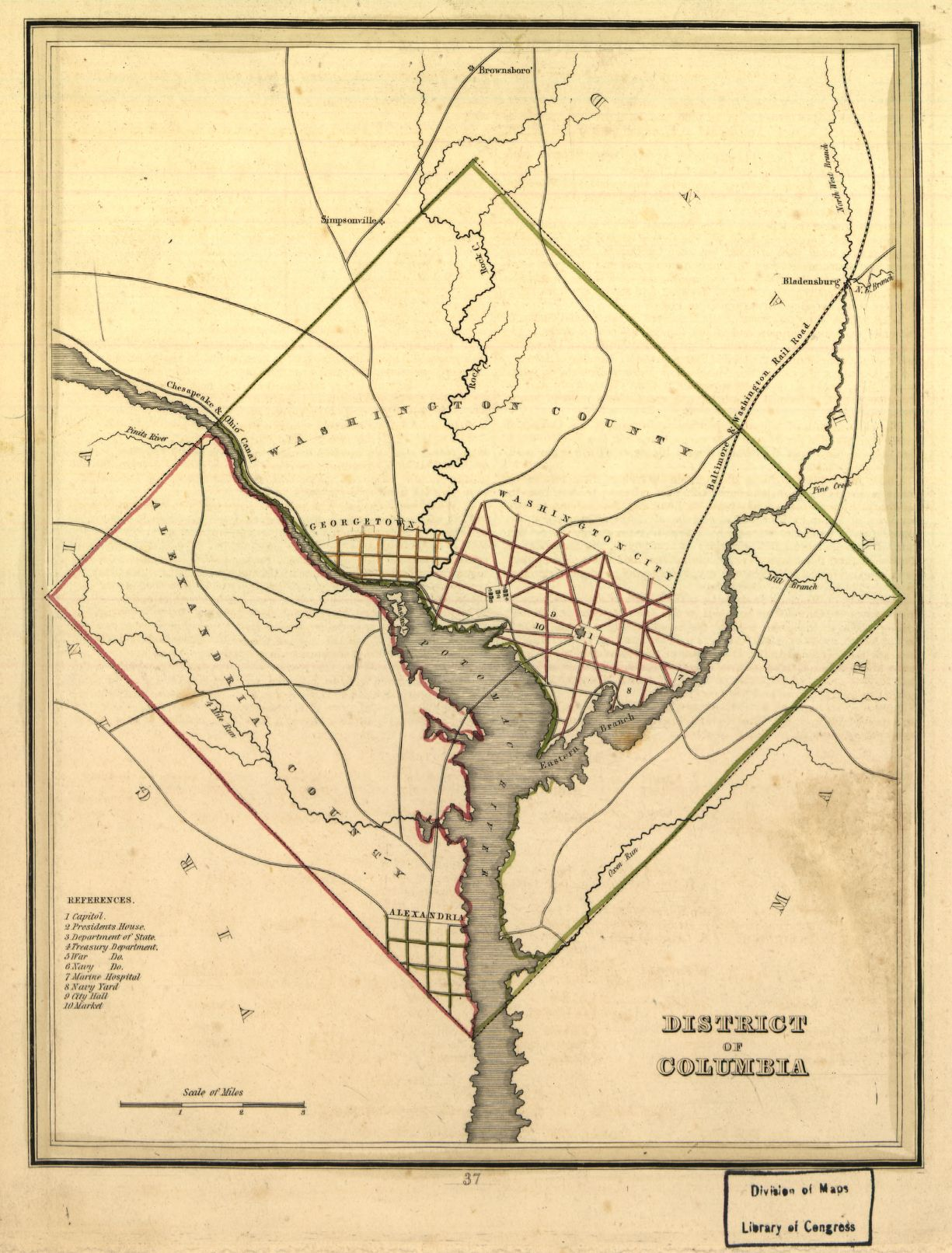 This map shows the 5 jurisdictions within the District of Columbia in 1835, prior to retrocession